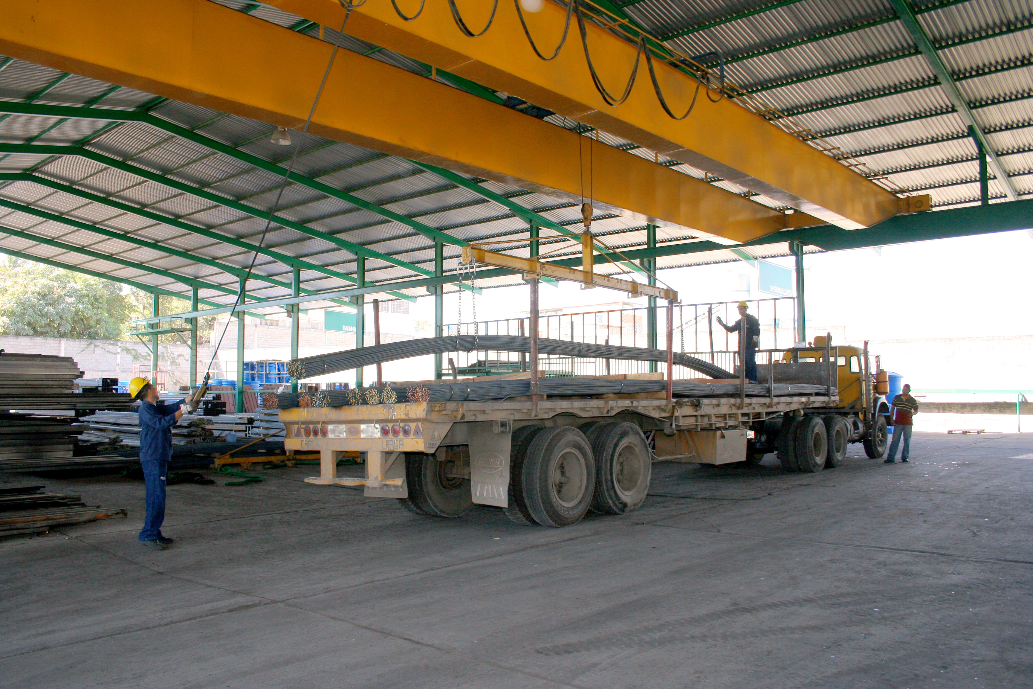 overhead crane downloading iron rods, with visible trailing wired cables for power supply